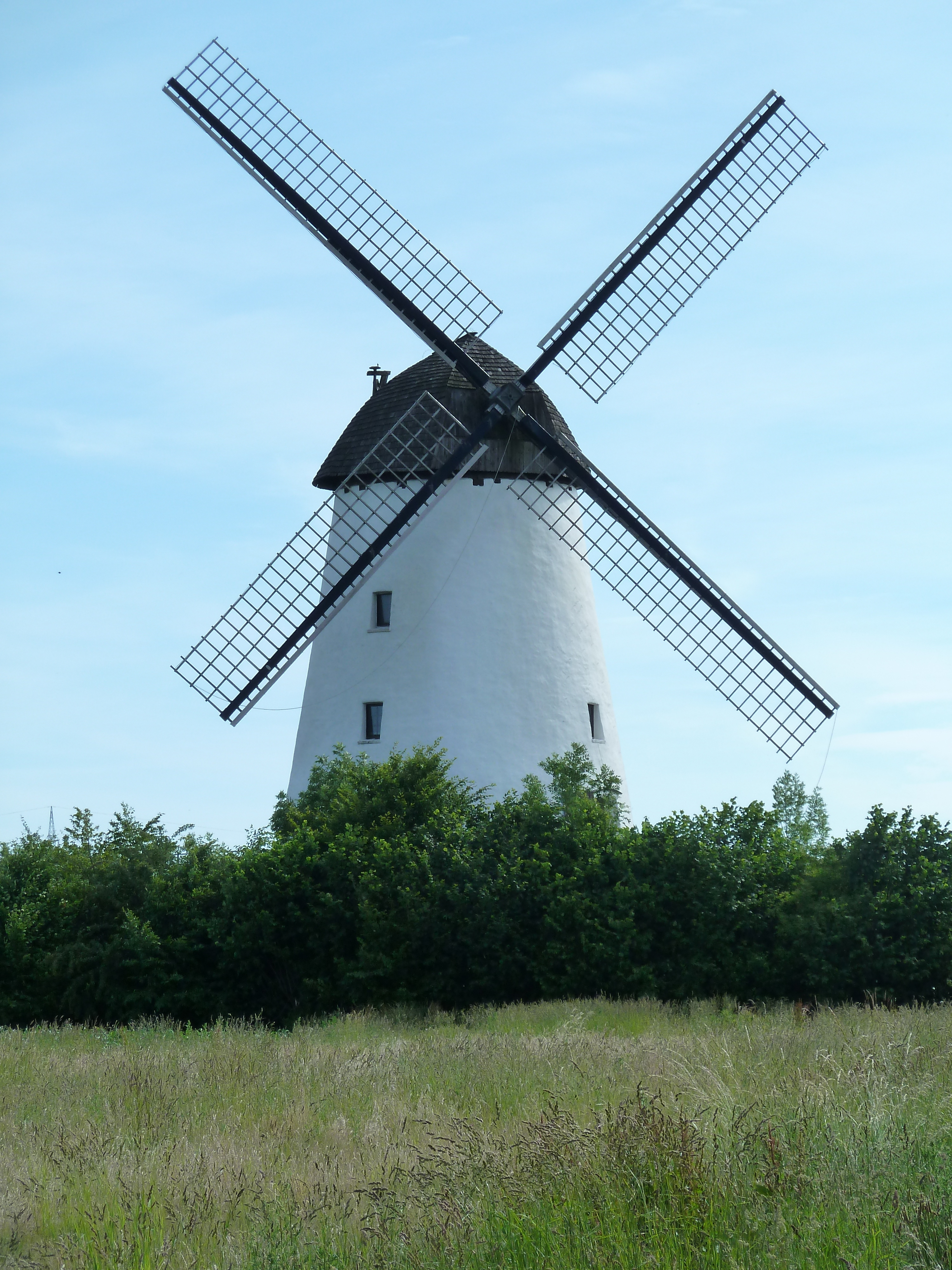 Windmill in Schmerlecke (Erwitte)